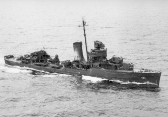 The U.S. Navy destroyer USS Maury (DD-401) underway, in mid-1943. She is painted in Camouflage Measure 14.